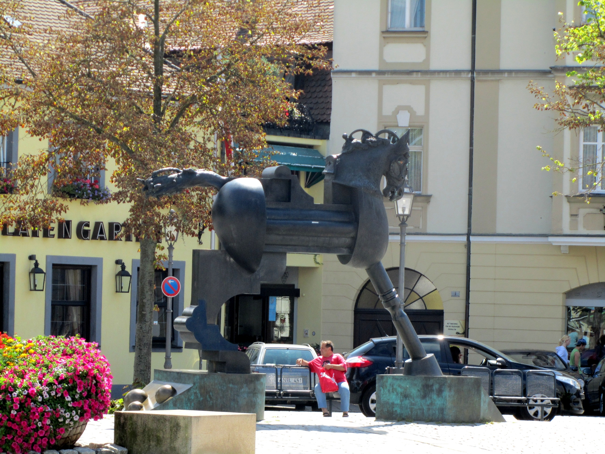 Sculpture "Anscavallo" at the Schlossplatz (castle square) of Ansbach